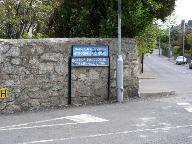 Sign for Atmospheric Road in Dalkey, Co. Dublin A reminder of the atmospheric railway which ran between here and Dun Laoghaire from 1843 to 1854.